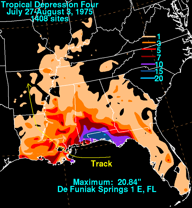 Storm total rainfall map of Tropical Depression Four (designated non-operationally as Tropical Depression Nine) during July and August 1975.